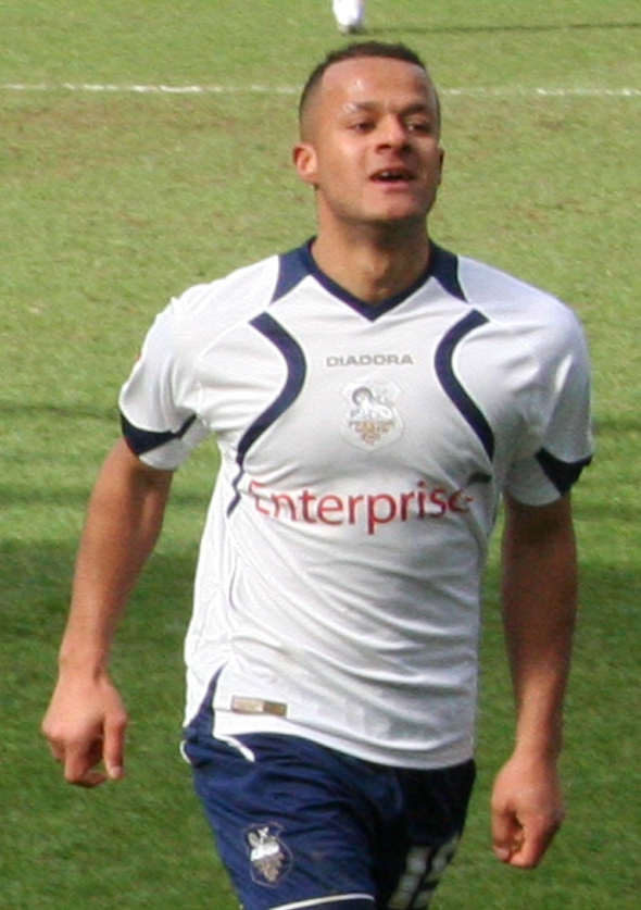 Simon Whaley. Image cropped from original at flickr.